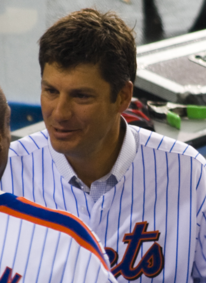 Robin Ventura at the final game at Shea Stadium - 2008